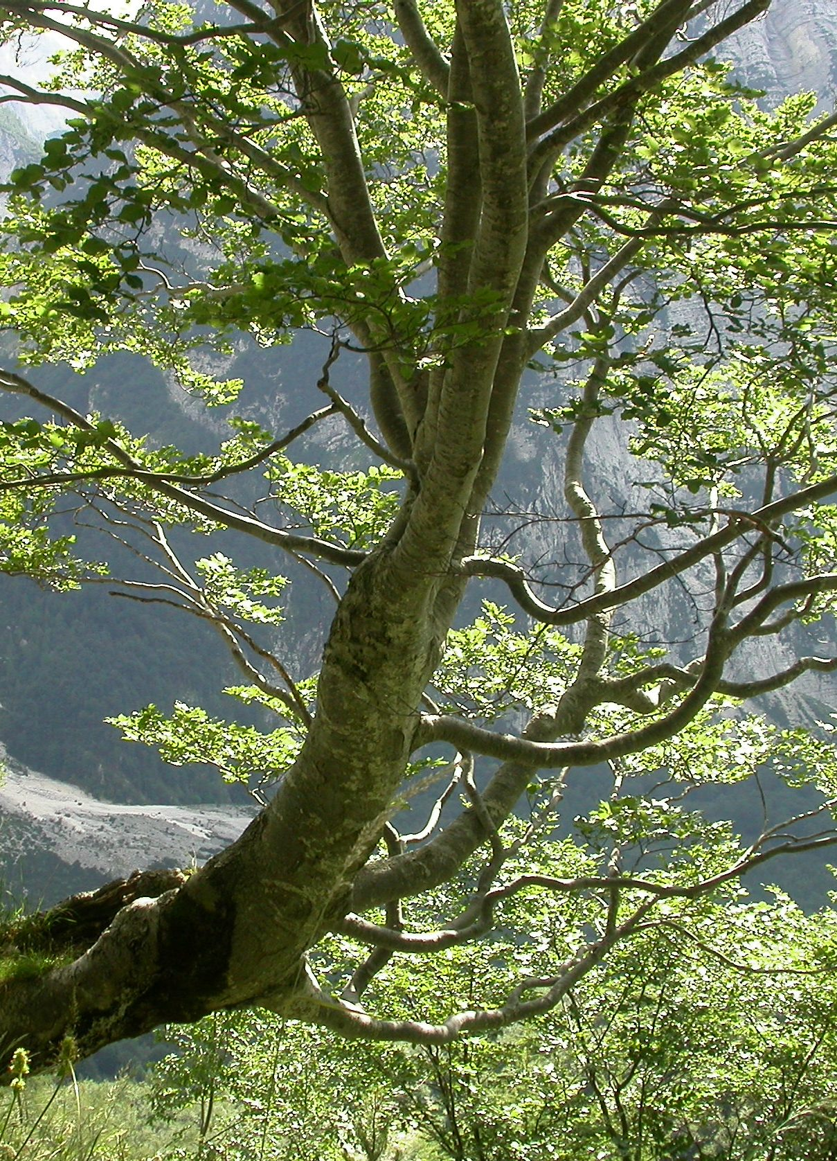 Beech (Fagus sylvatica), Triglav, Slovenia.